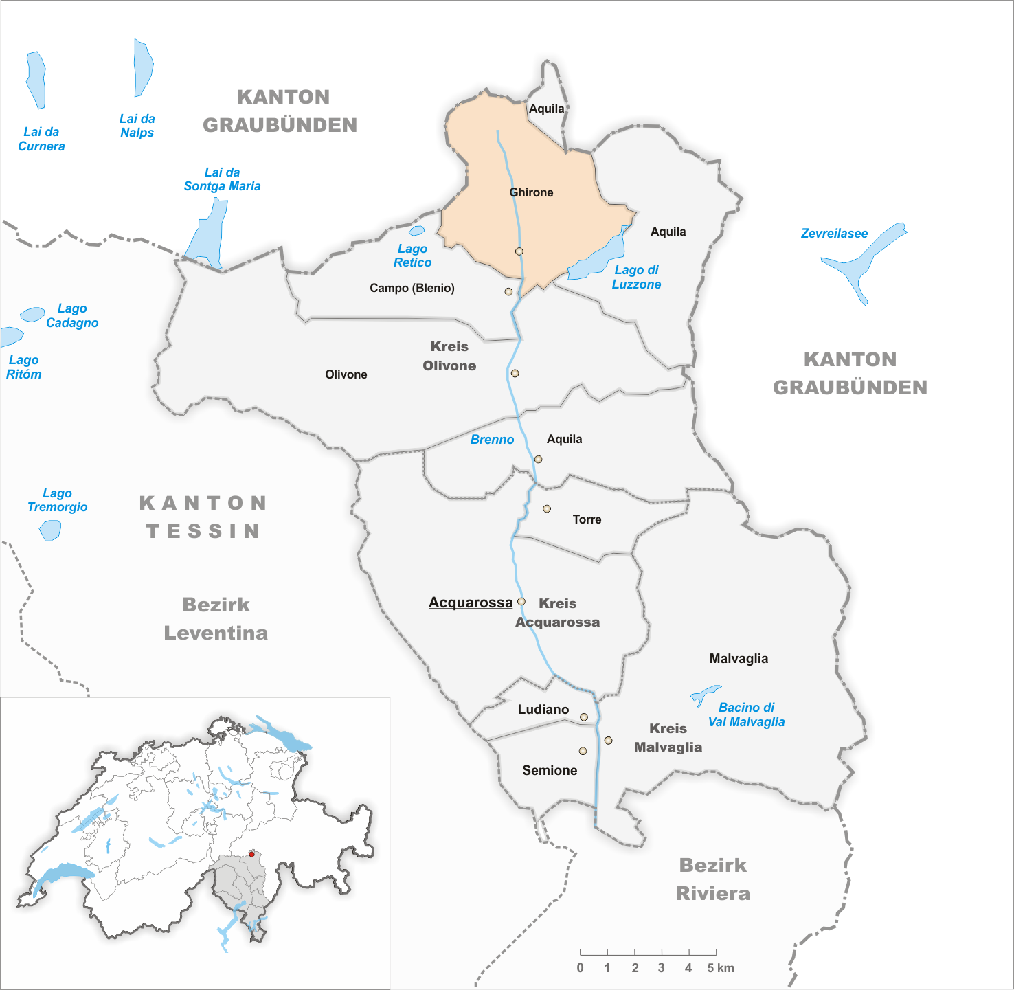 Municipality Ghirone